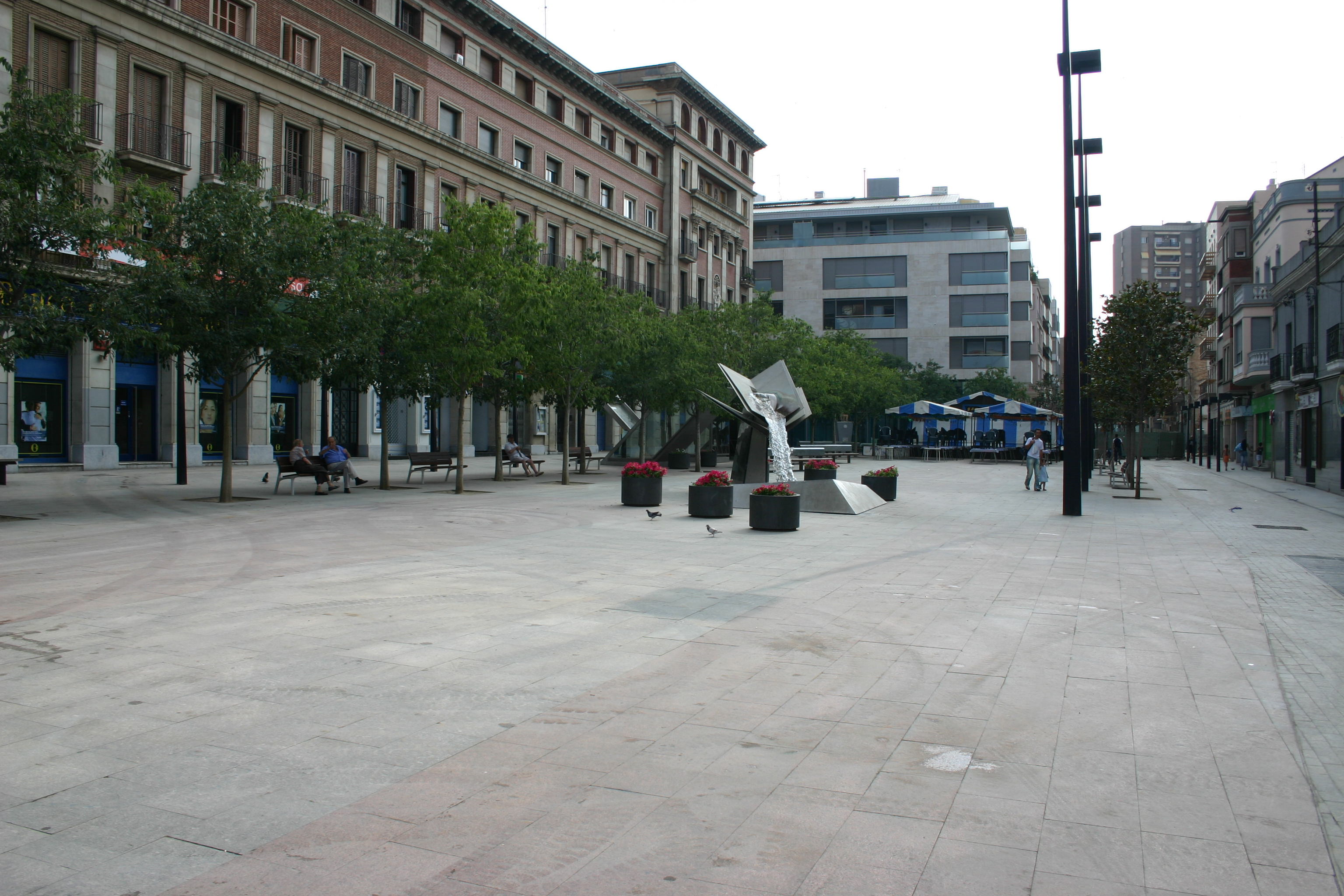 Square of the town council